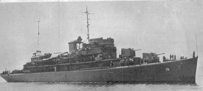 United States Navy seaplane tender USS Mackinac (AVP-13) ca. 1942